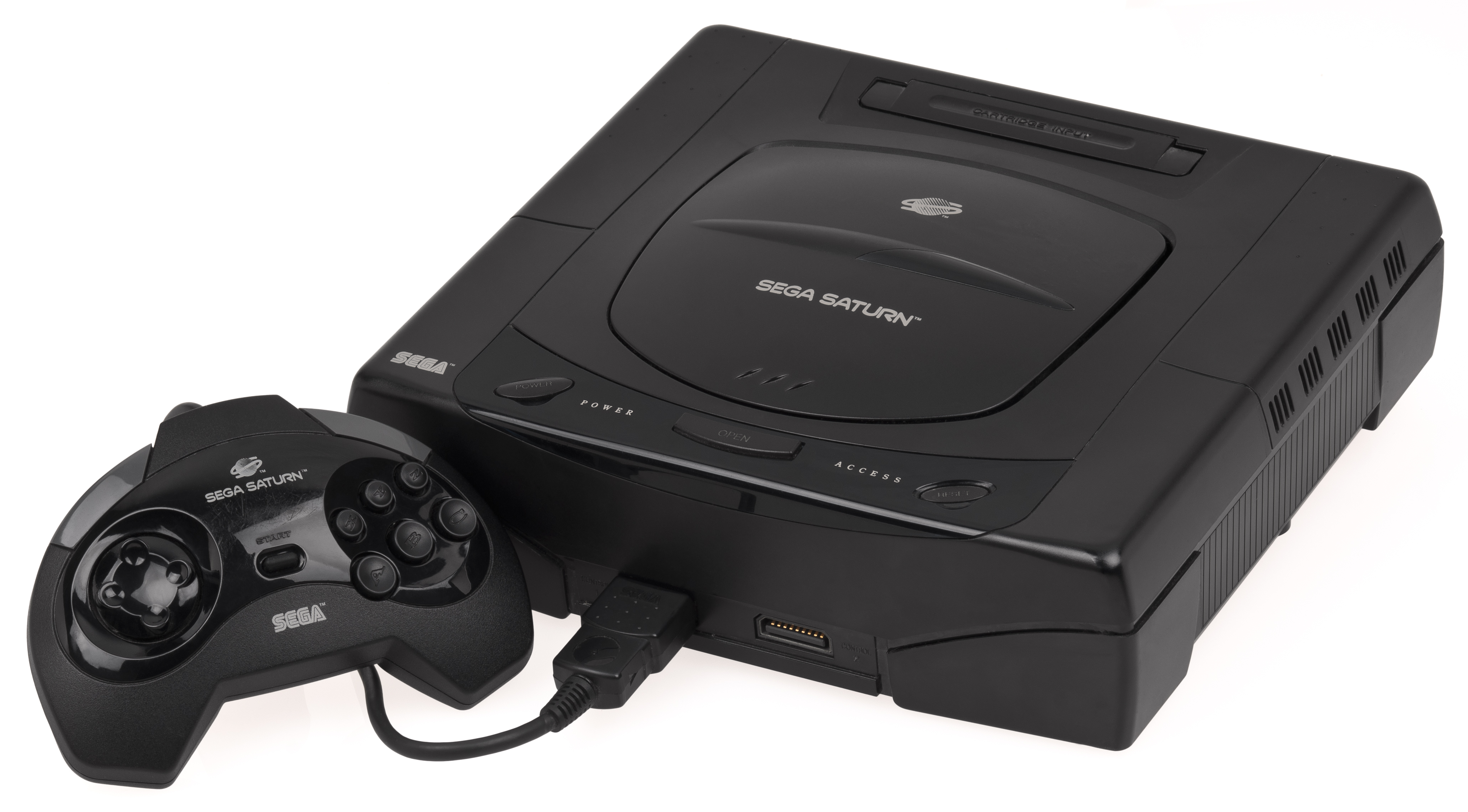 The first generation of the US Sega Saturn video game console shown with the first generation Sega Saturn controller.